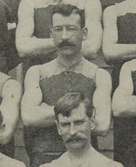 Photograph of Joe Sullivan from 1900-1903